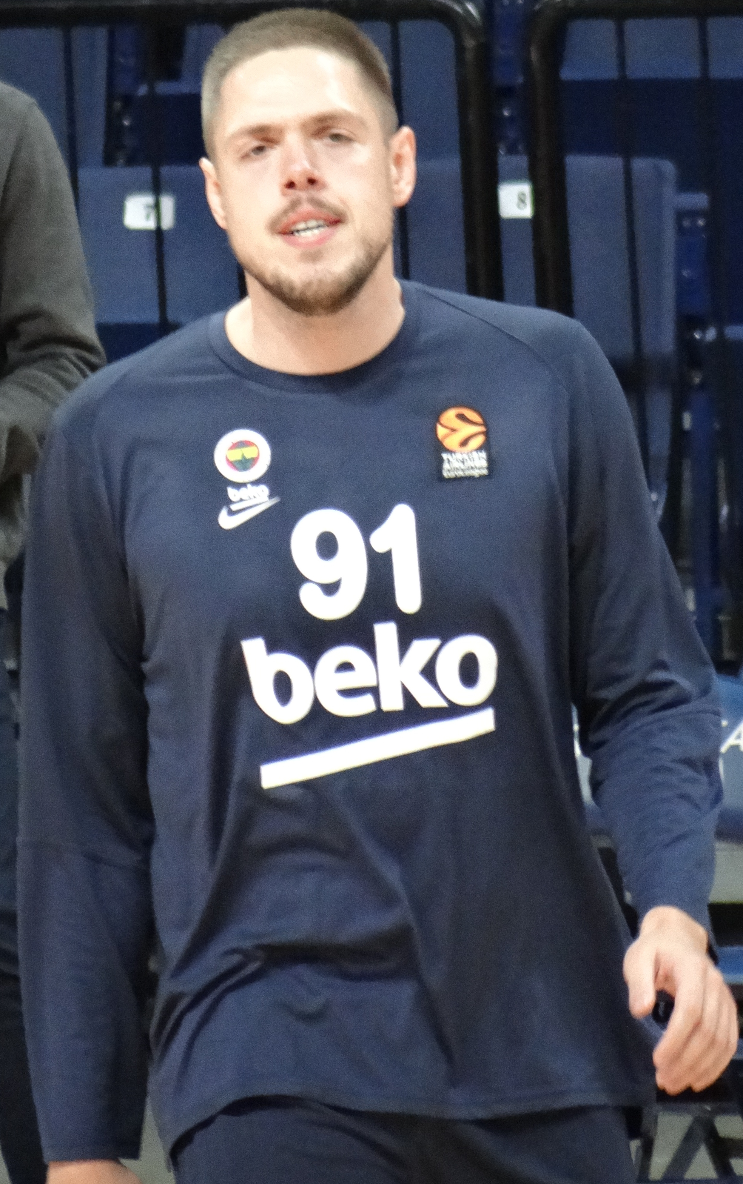 Vladimir Štimac 91 Fenerbahçe Men's Basketball EuroLeague 20191010